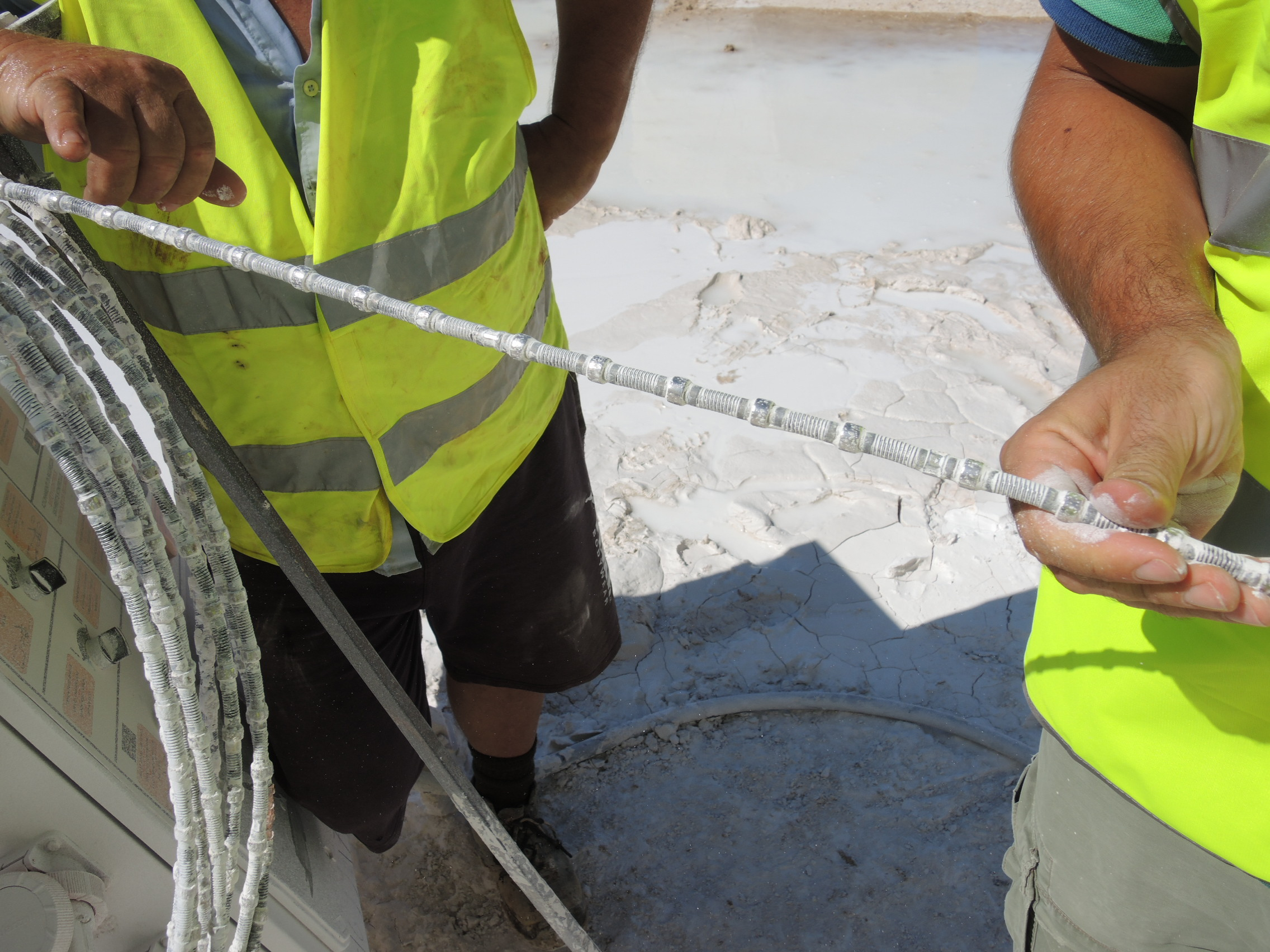 Diamond Wire for marble mining